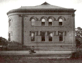 Sacred Heart Prep Main Building from before 1906